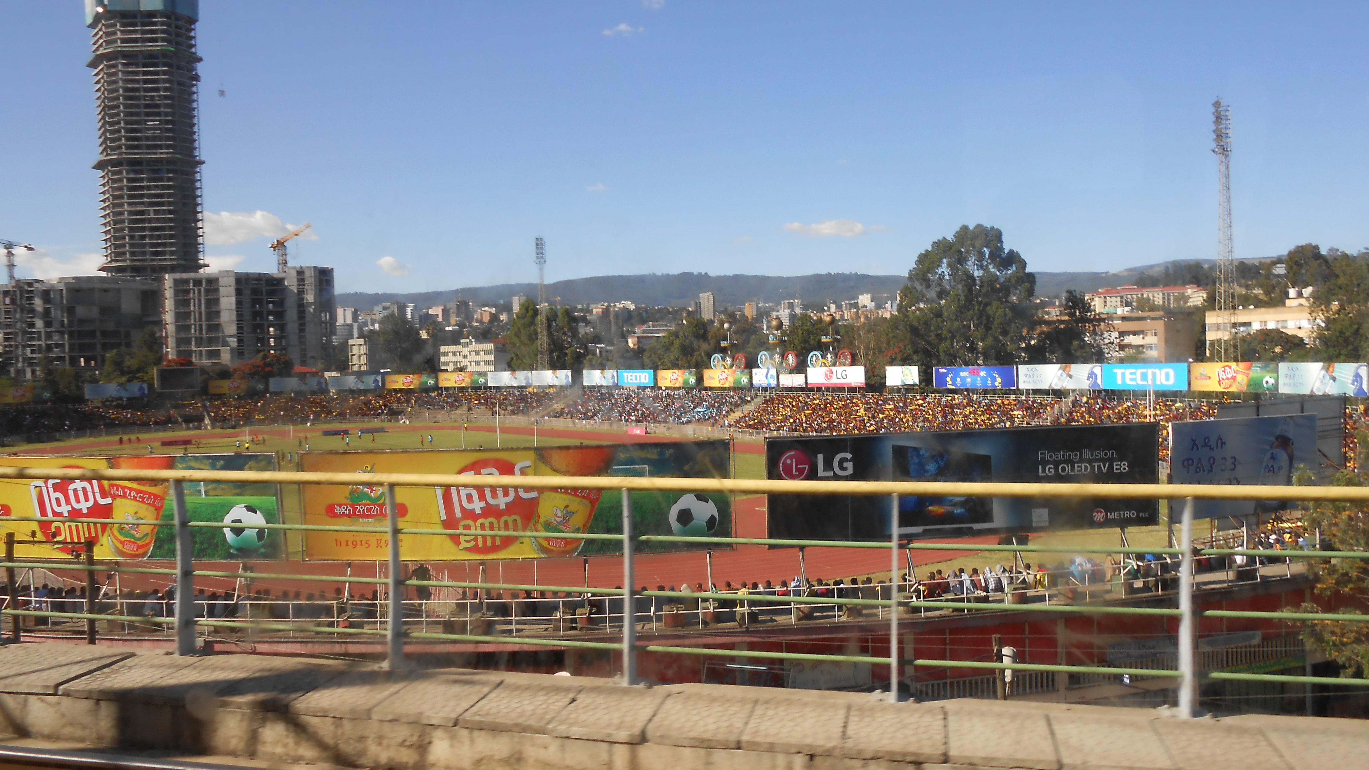 The Addis Ababa Stadium in 2018, october the 20th, before a game of the home team Saint George SA, known for their fanatic supporters.